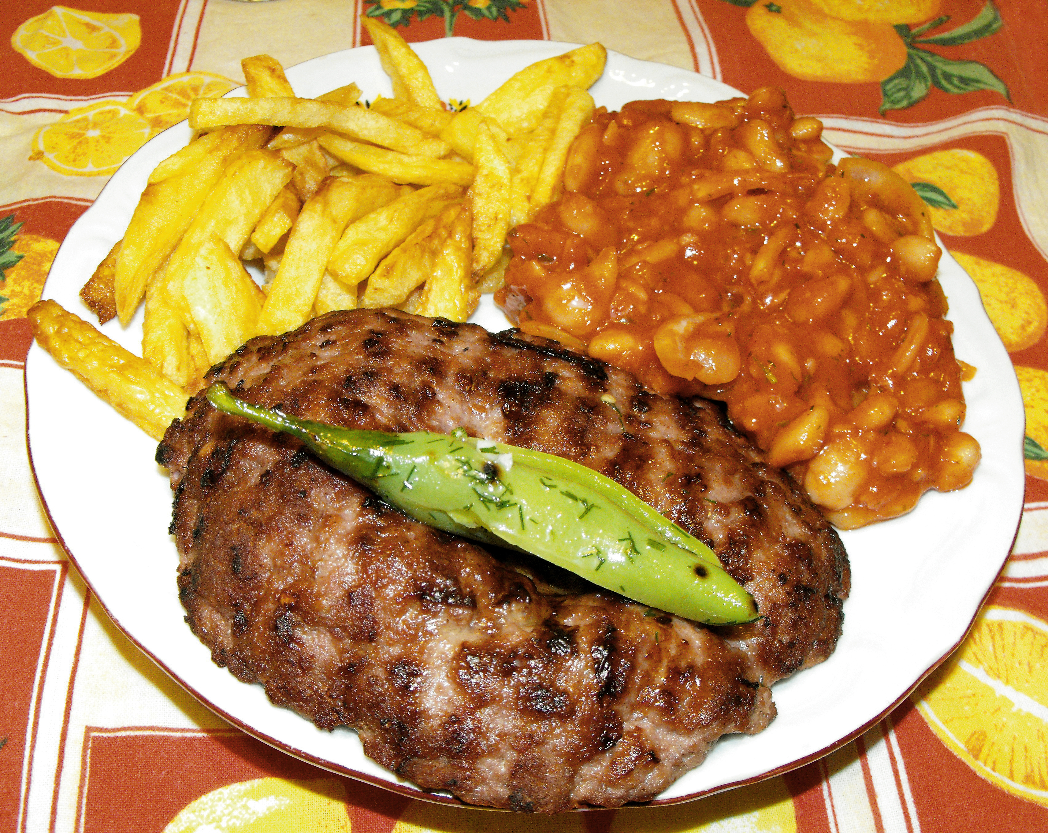 Pljeskavica - is a patty dish popular in most of the Balkans.